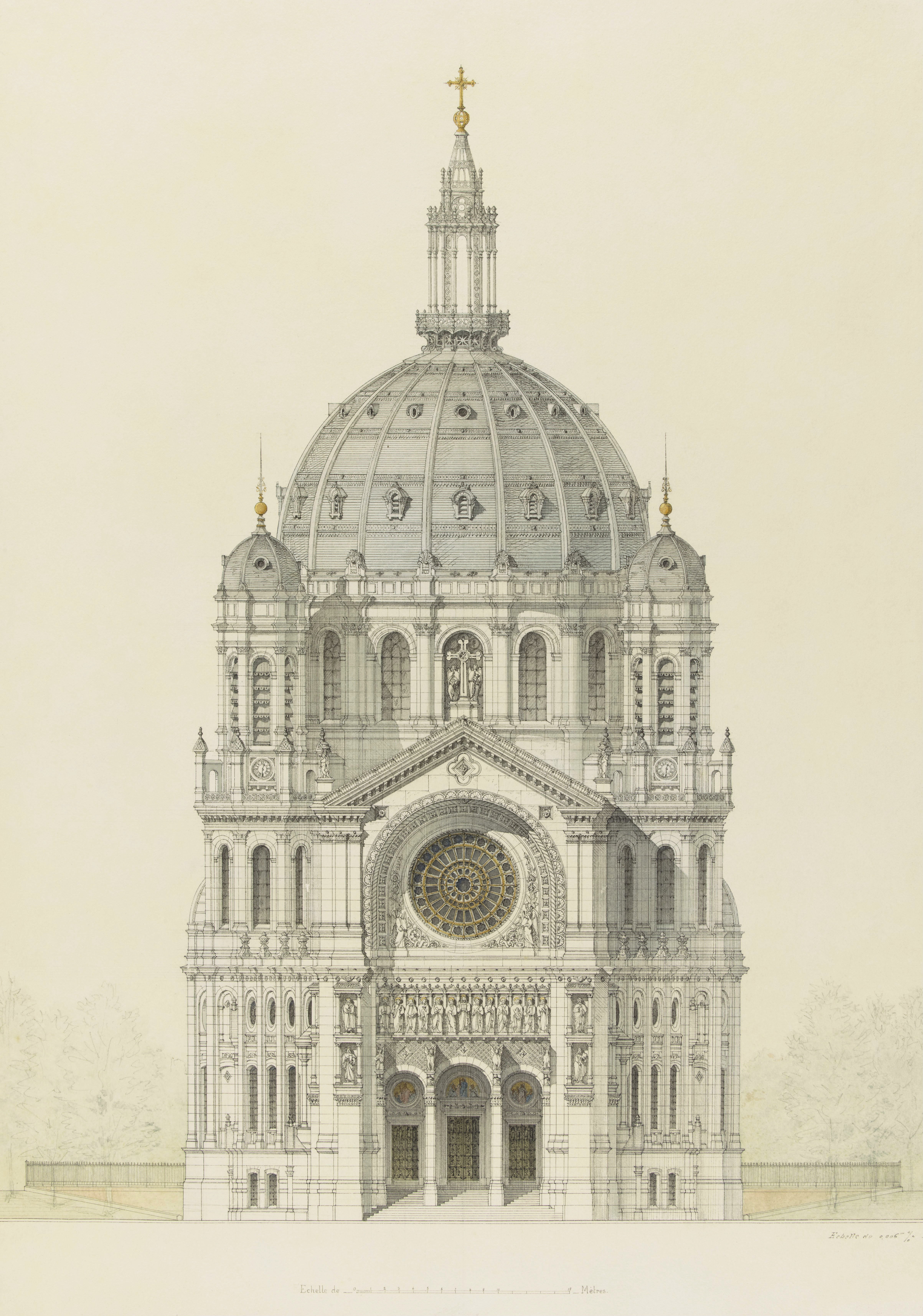 Church of Saint Augustin, Paris, elevation of the main facade by Victor Baltard